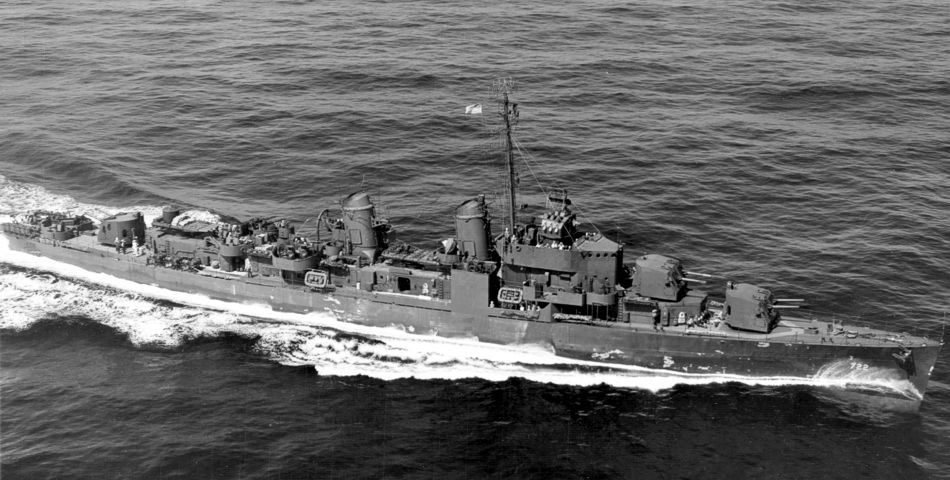 The U.S. Navy destroyer USS Barton (DD-722) underway on 26 March 1944.